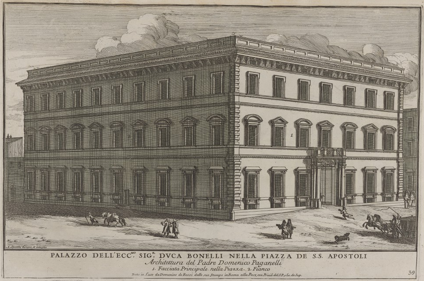 View of the Palazzo Bonelli (now the Palazzo Valentini) and the Piazza de S.S. Apostoli, Rome, Italy. Includes a view of two sides of the Palazzo (1 and 2 in image).